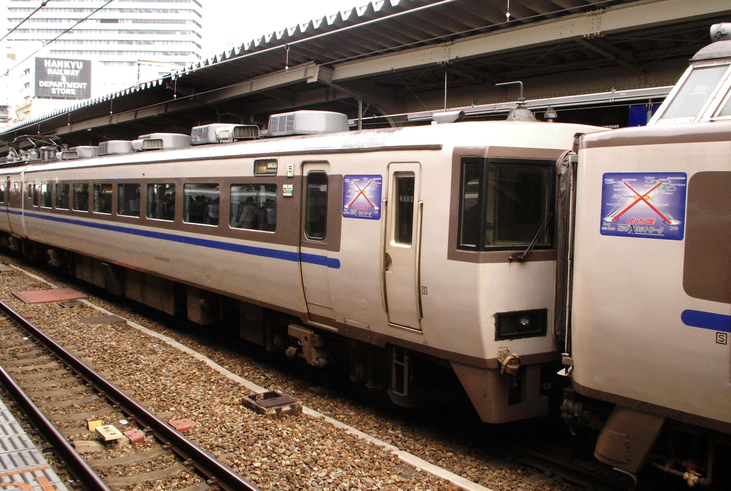 JR West 183 series EMU car KuMoHa 183-201 at Osaka Station